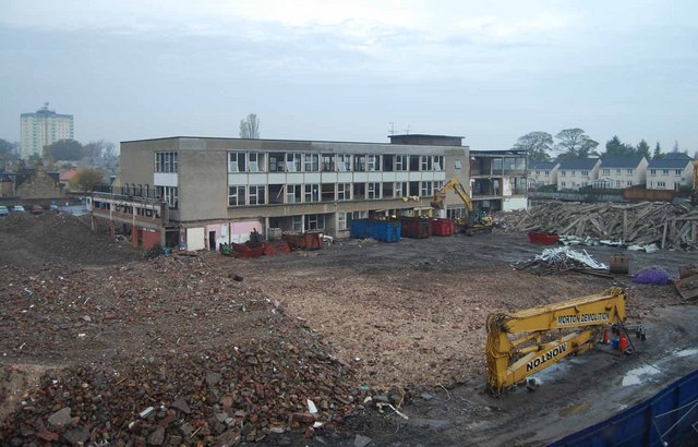 The Old Falkirk High School Image taken from the new Falkirk High School towards the old school which is clearly being demolished.